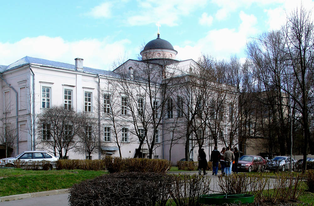 College in Moscow, 10, Radio Street, corner of Yelizavetinsky Lane